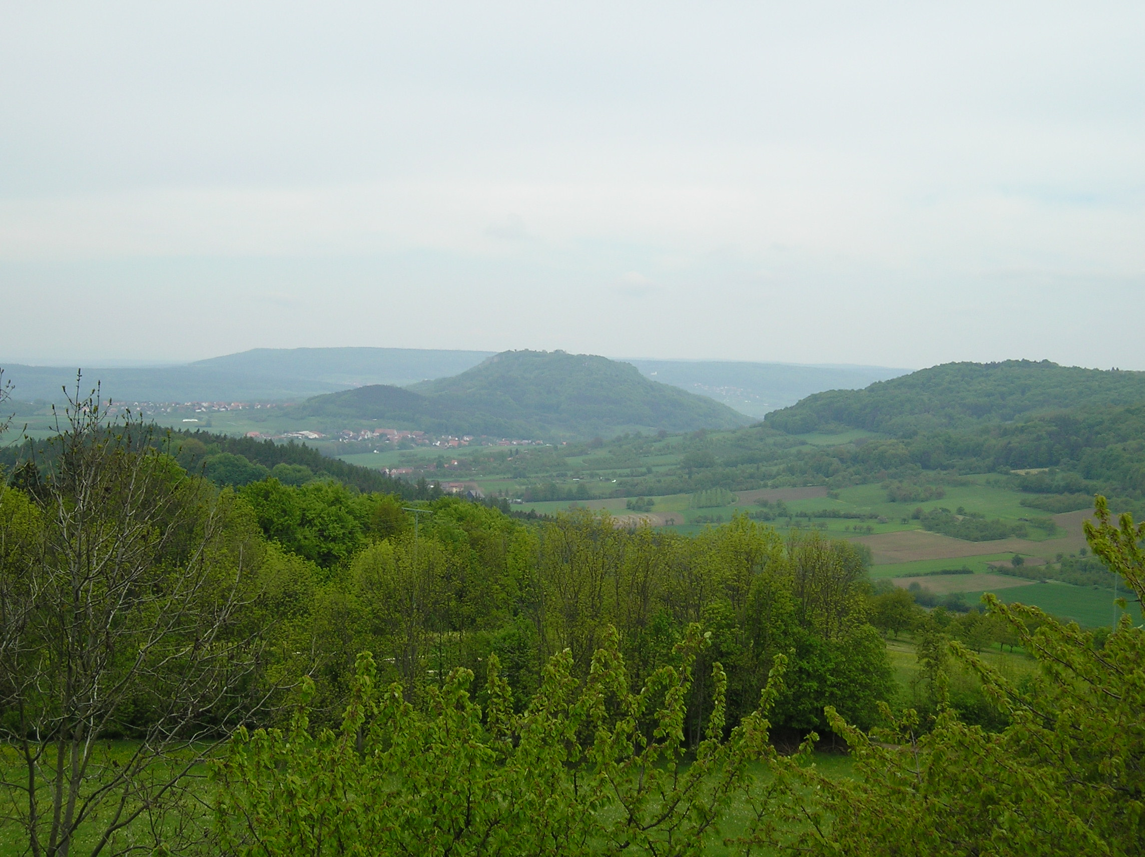 Western frontier of the Franconian Swiss mountain range, viewed from a point above the village of Regensberg (Germany). In the middle you can see the freestanding Walbala mountain.